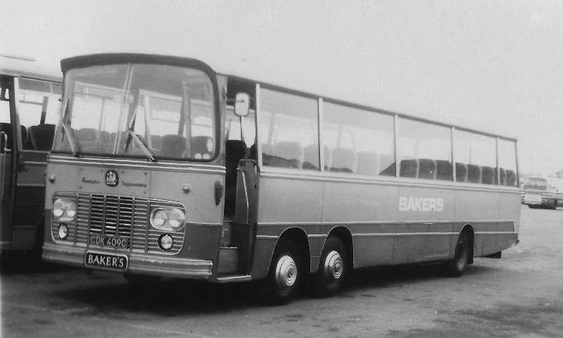 CDK409C is a Harrington-bodied Bedford VAL three-axle coach in service with Baker's Coaches of Weston-super-Mare. It is in Locking Road Coach park behind their depot. The caoch was new in 1965 to Yelloways of Rochdale.